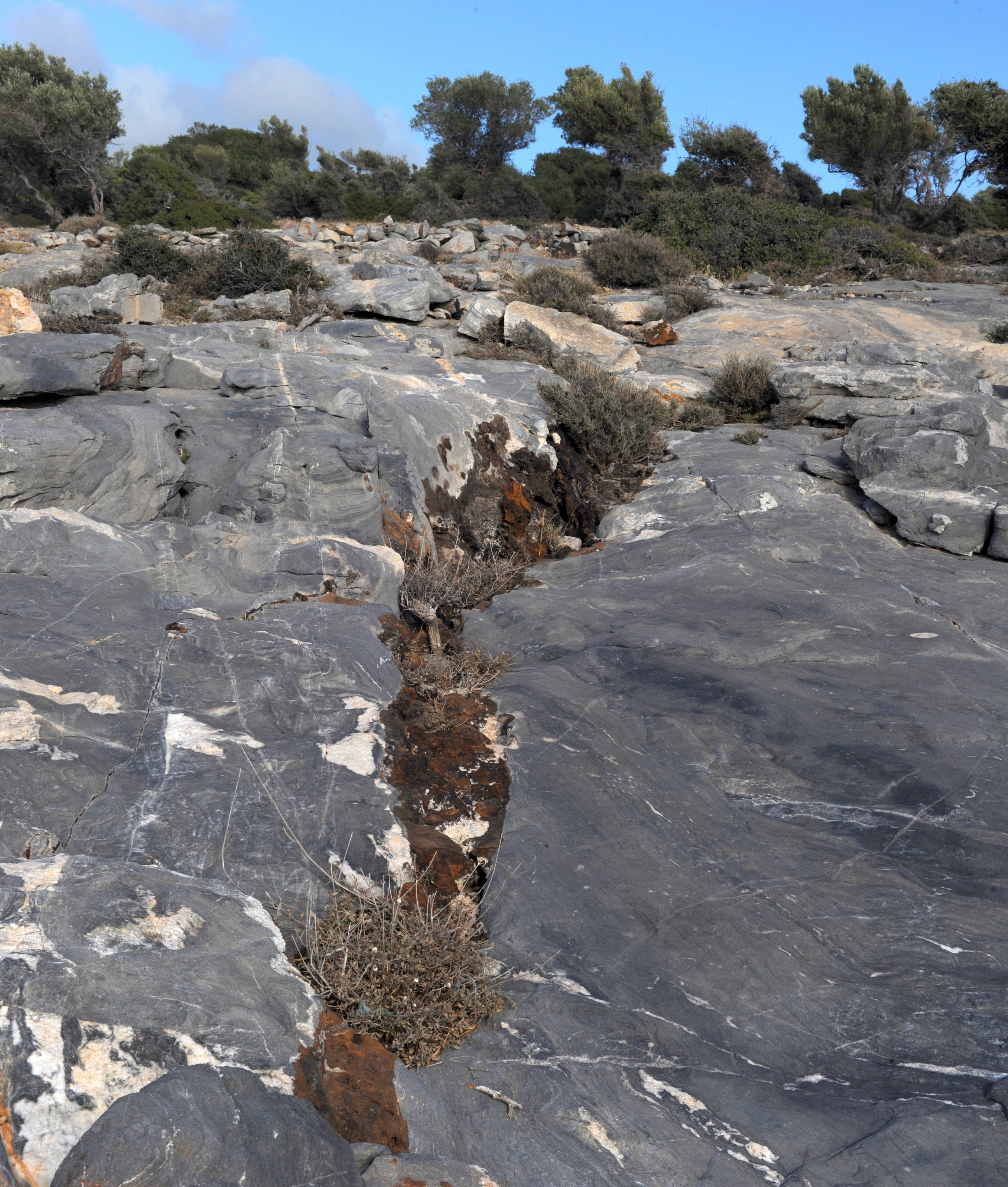 Iron ore veins and beds, Marmaritsa, Rhodope, Thrace, Greece.